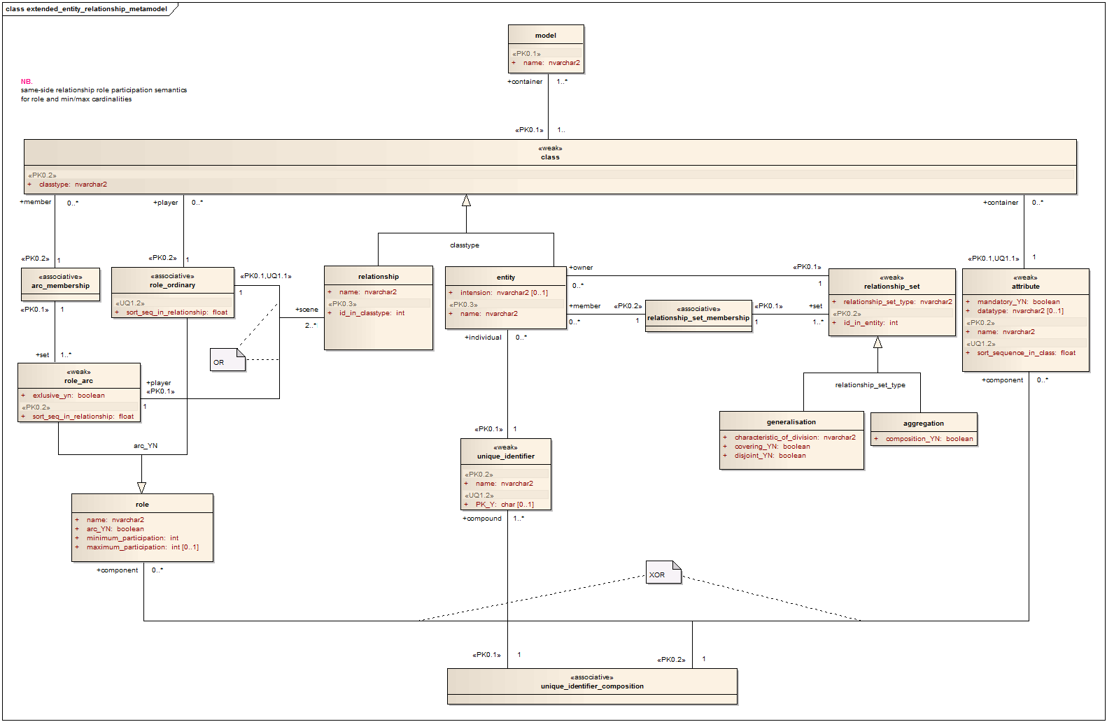 a UML class diagram of the extended entity relationship metamodel. Also displays the use of a UML profile for Entity-Relationship models, a diagrammatic syntax that allows database DDL to be generated directly from the semantic model with no intervening step necessary